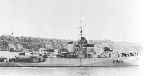 River class frigate HMCS Cap de la Madelaine